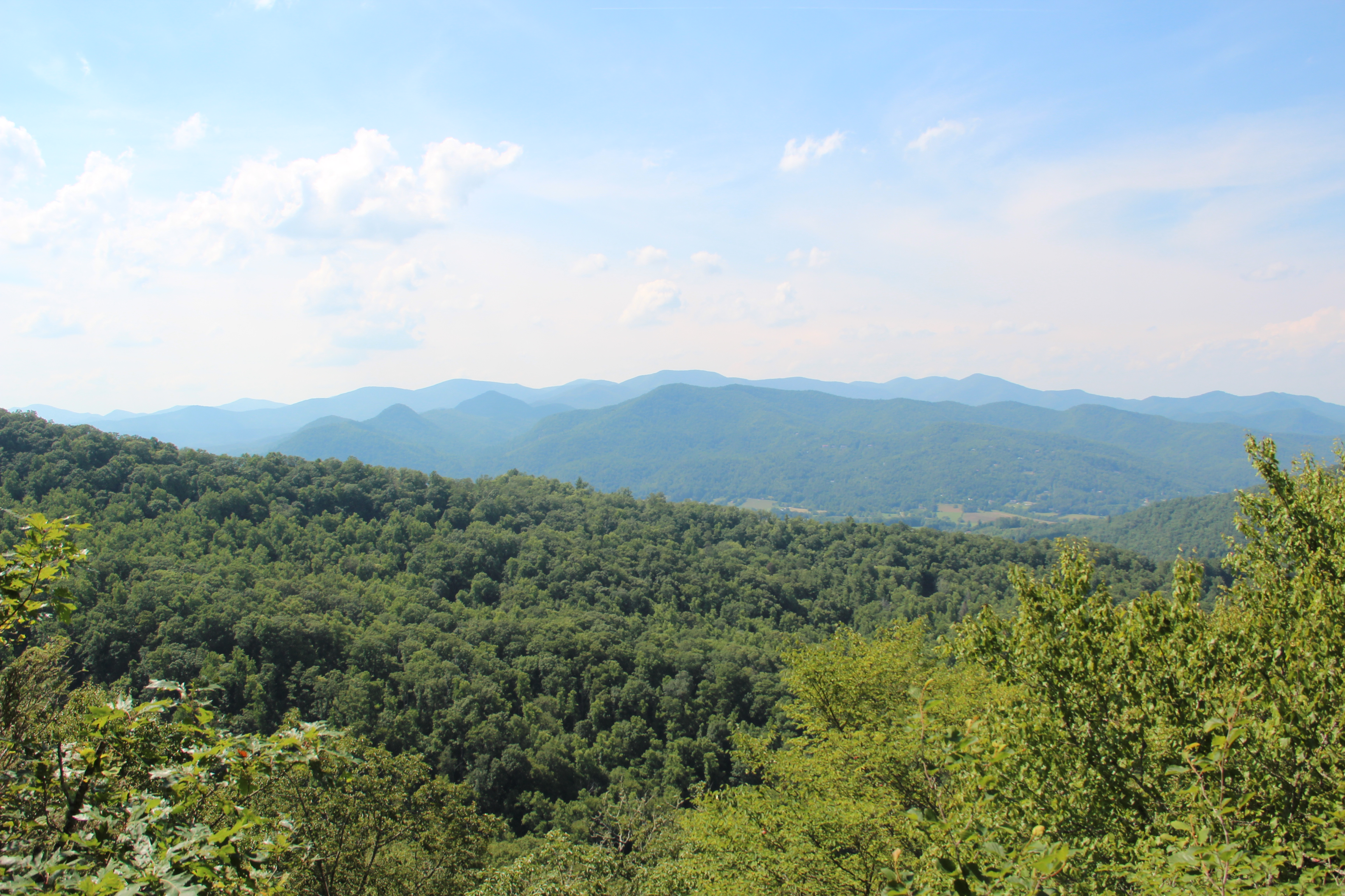 Nantahala Overlook, Black Rock Mountain State Park